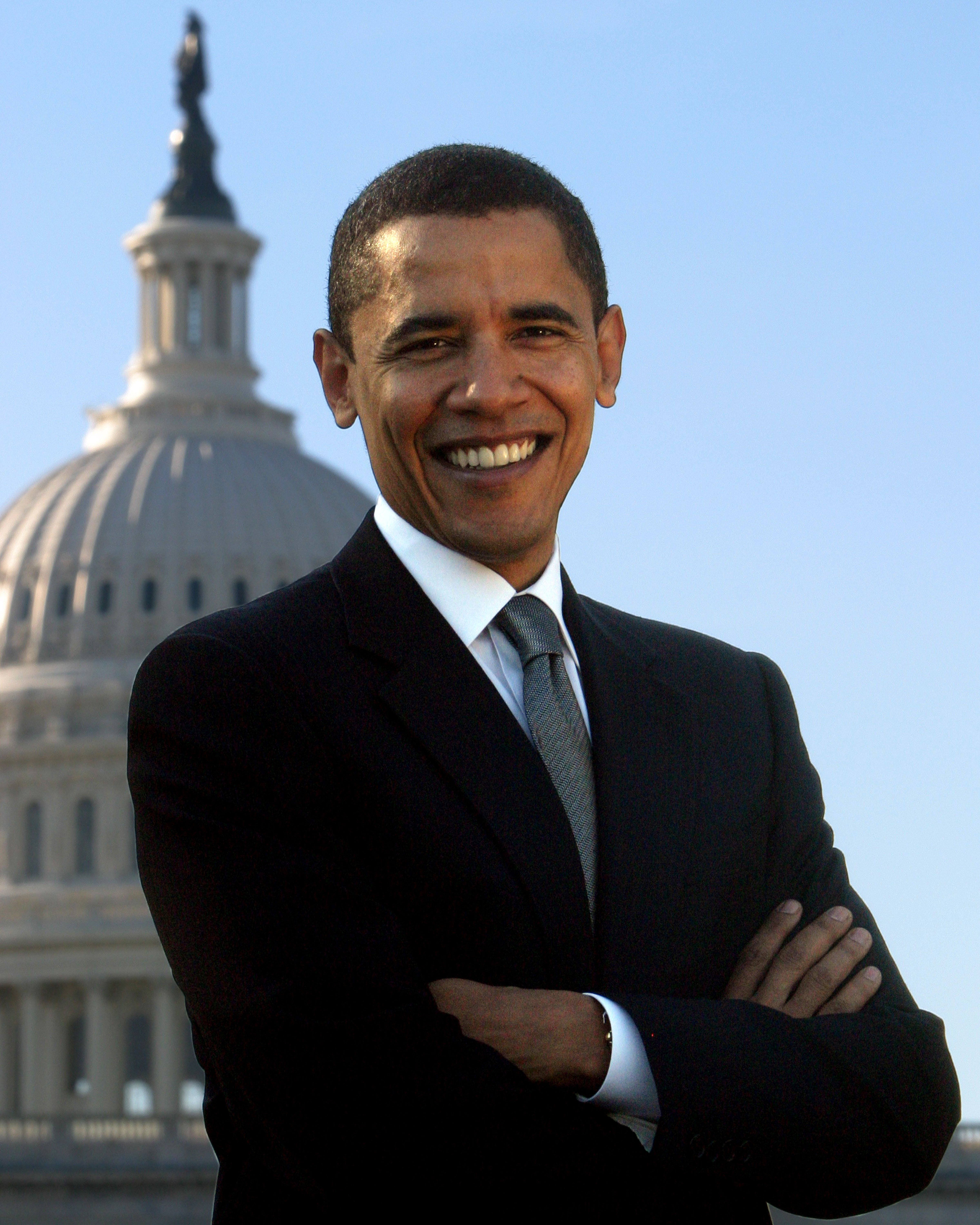 Barack Obama, the 44th President of the United States, in his official portrait as a member of the United States Senate.